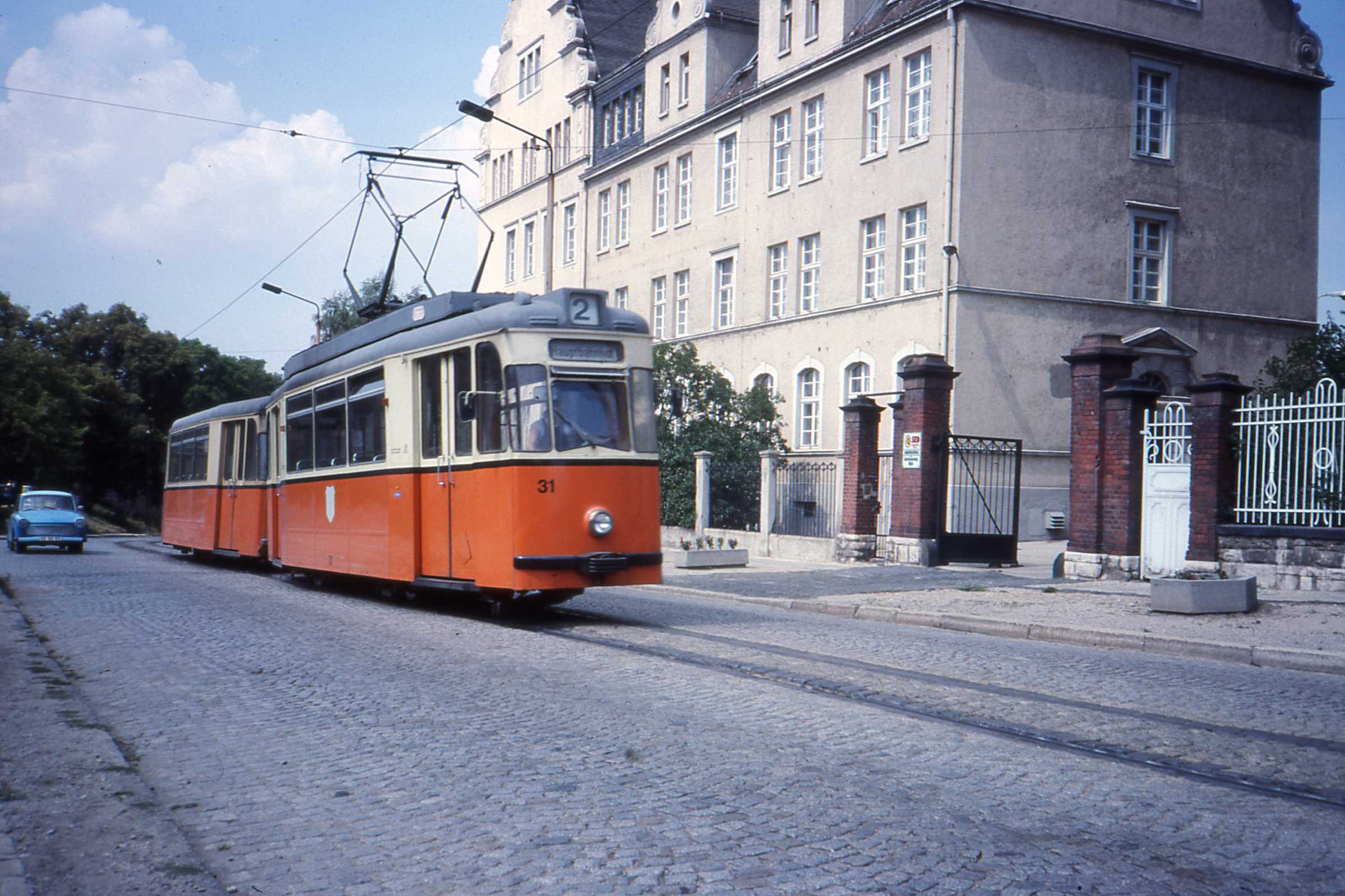 The indicator states Linie 2 , Hauptbahnhof. But there was only one clockwise route which always started and finished at the main station. the reason for this was that Linie 2 was a clockwise route, Linie 1 its anti-clockwise conterpart. (there were crossing loops). However, between Jan 1986 and June 1987 the system was closed for urgent renovation, and when it reopened using trailers (as in the picture) a steep hill,Moritzburg, in the anti-clockwise direction meant that 2 car sets were unable to climb the hill, so only route 2 was re-introduced. Tram no 31 had a varied career , starting with Halle, passing to Plauen as no 91, before arriving in Naumburg in 1988 along with Plauen nr 88 (Naumburg 32) . They were Gotha T59E vehicles, and were both scrapped after the end of normal operation on 18 August 1991. At the end , only 31,32 and 41 were the operational motor vehicles. Operations have since started up, initially as a museum operation, but now a daily service. The route is ;no longer a circle, and is known as linie 4, thus can only be operated by double-ended cars. An english summary is found here. There is a healthy society of friends of Naumburg/Jena transport which has been instrumental in retaining the system in the first place. Their site has an overview in German of the tourist sights of the town which is certainly worthy of a visit.